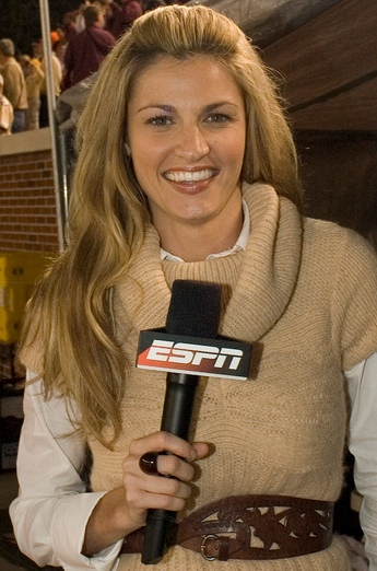 ESPN reporter Erin Andrews at the 2007 Georgia Tech vs. Virginia Tech college football game.